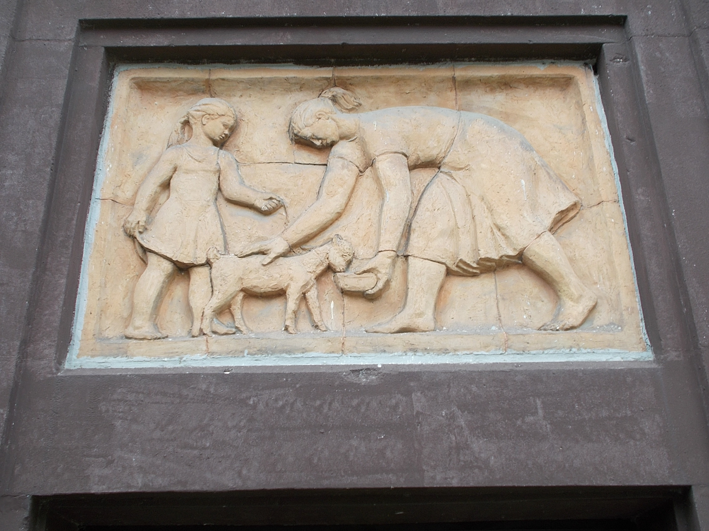 Lamb feeding by Magda Gádor (1957 works, Terracotta relief). - 8 Huba Street, Újváros neighborhood, Tatabánya, Komárom-Esztergom County, Hungary.